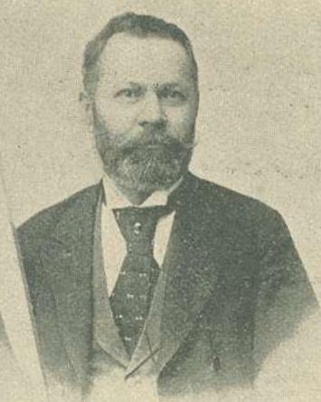 Portrait of Horváth Géza